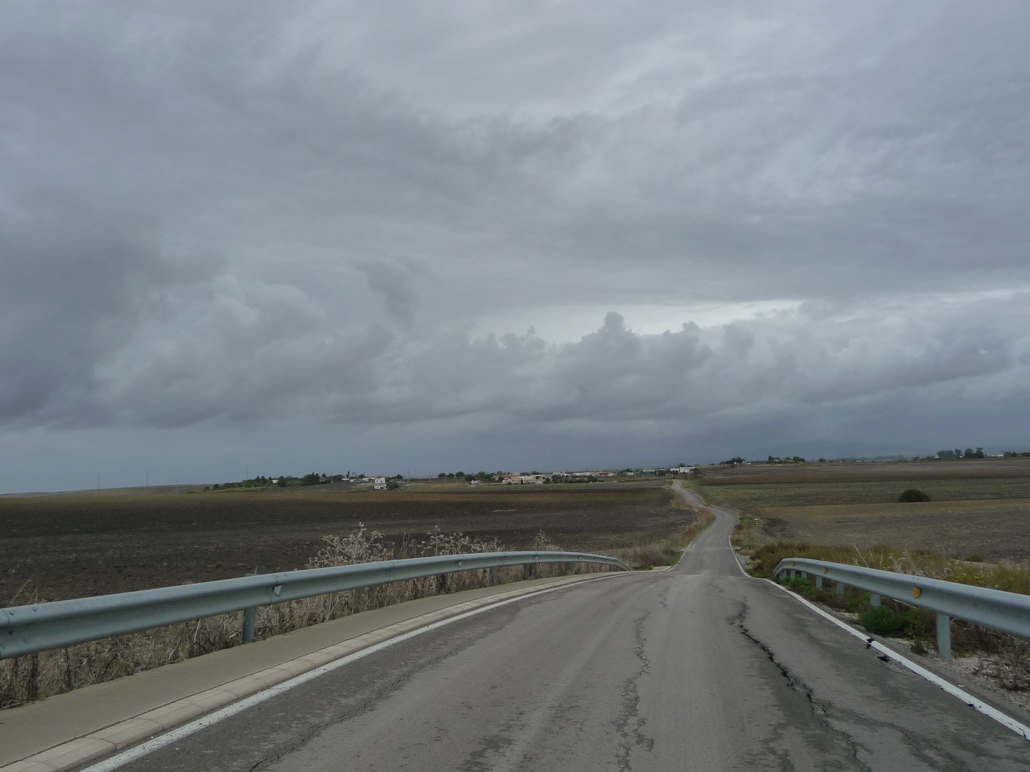 Mesas de Santa Rosa, Jerez de la Frontera (Andalusia, Spain)